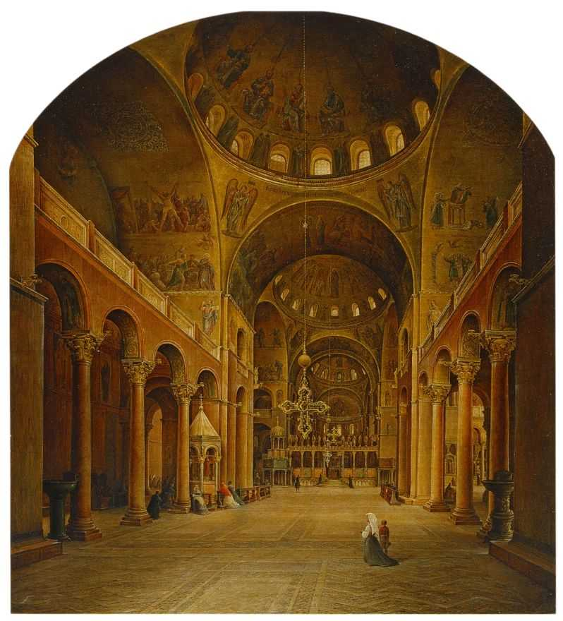 Interior of St. Mark's Basilica